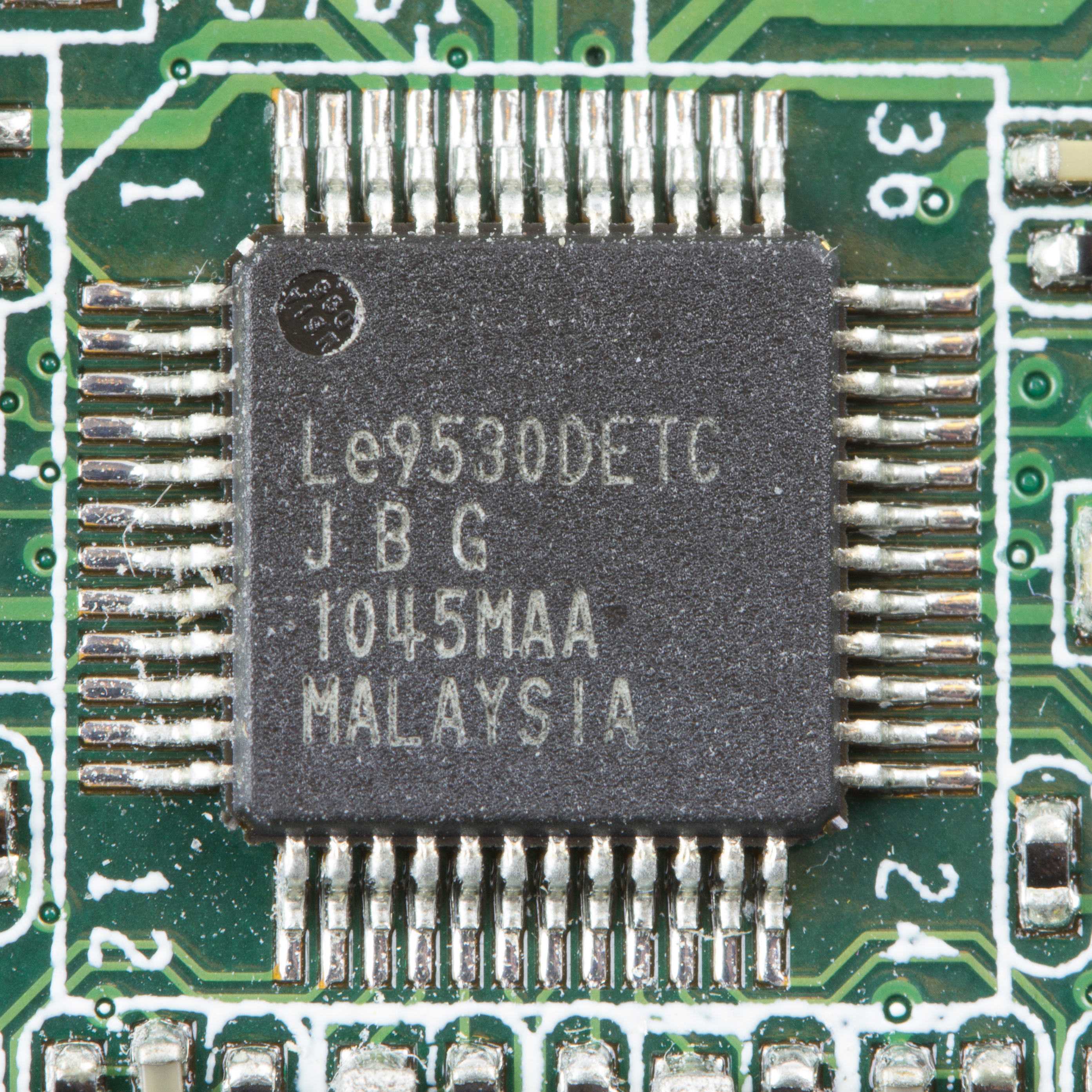 Cisco EPC3212 - Microsemi Le9530DETC - Dual Channel Ringing SLIC. Package: eTQFP